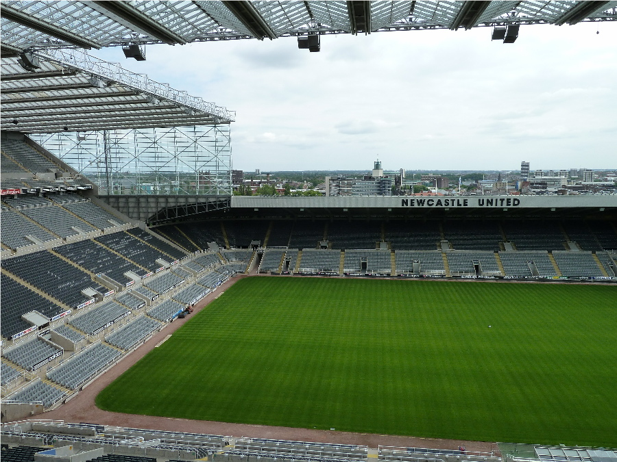 PAI Newcastle trip 2010